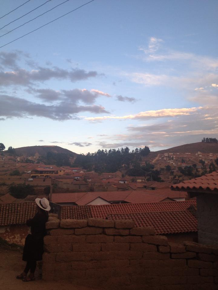 Houses in the Bolivian City of Totora